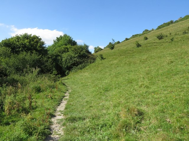 Footpath at foot of Black Hill, near Cerne Abbas